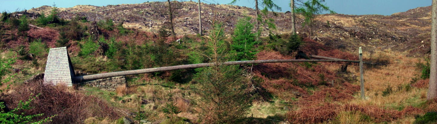 Panoramic shot of sculpture on the Grizedale Forest sculpture trail